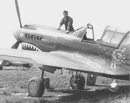 P-40 in China. (National Archives) Crew chief indicates a P-40 pilot's scores. This is a China Air Task Force (CATF) P-40 assigned to the 23rd Fighter Group (FG). It is an AVG P-40 with the new CATF logo painted on. The photo is said to have been taken on September 15, 1942.)